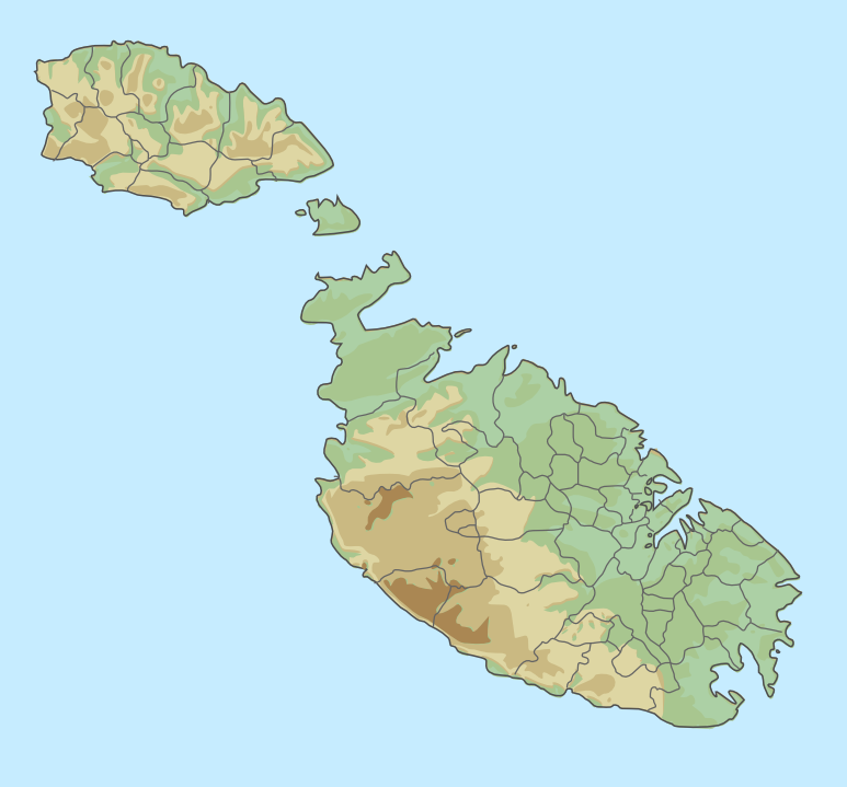 location map for Malta Equirectangular projection. Geographic limits of the map: N: 36°06' N S: 35°47' N W: 14°10' O O: 14°36' O